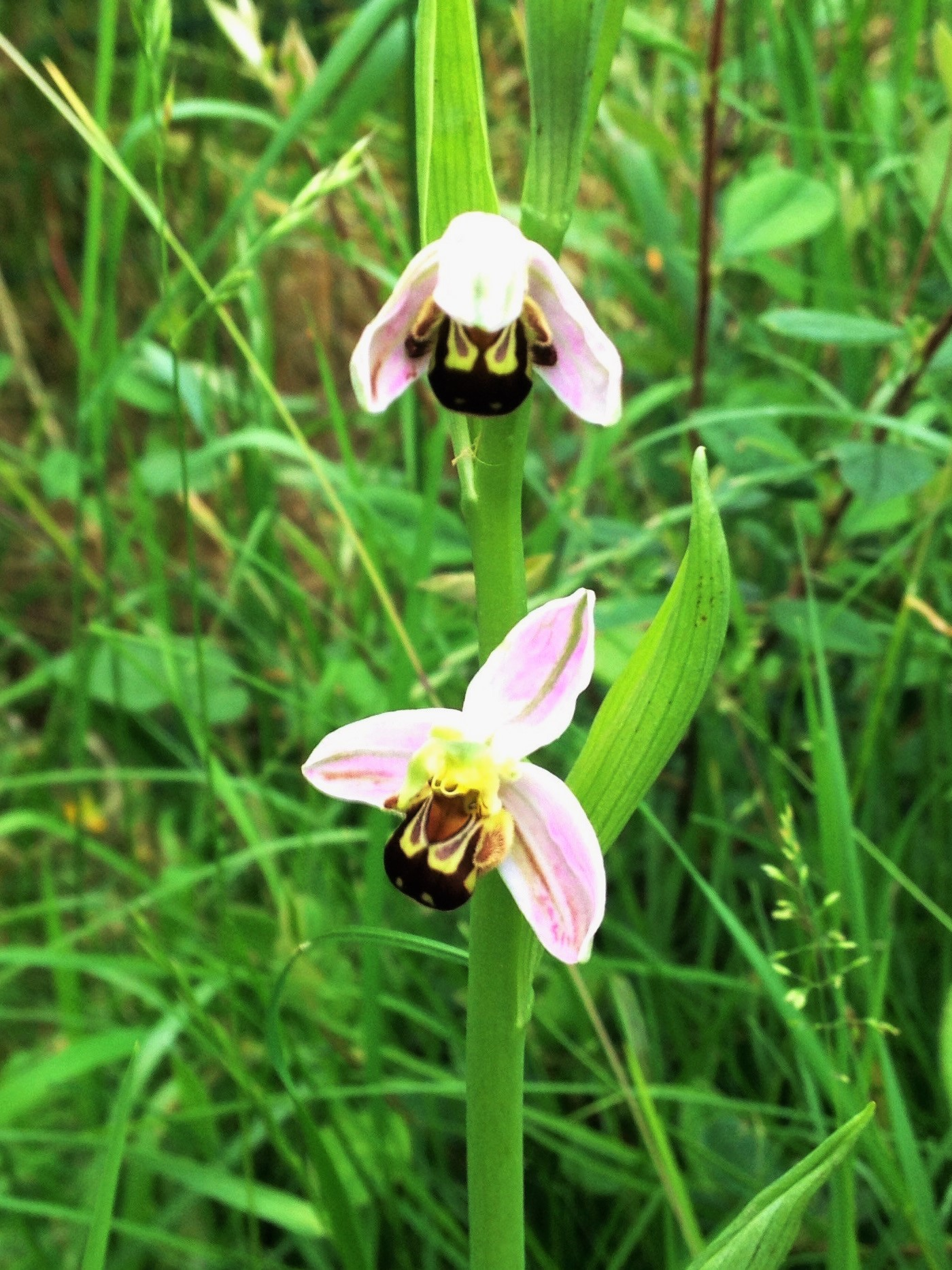 Observation from a domestic garden in Saint Illiers la Ville France